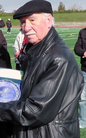 Hector Marinaro, Sr in 2010.